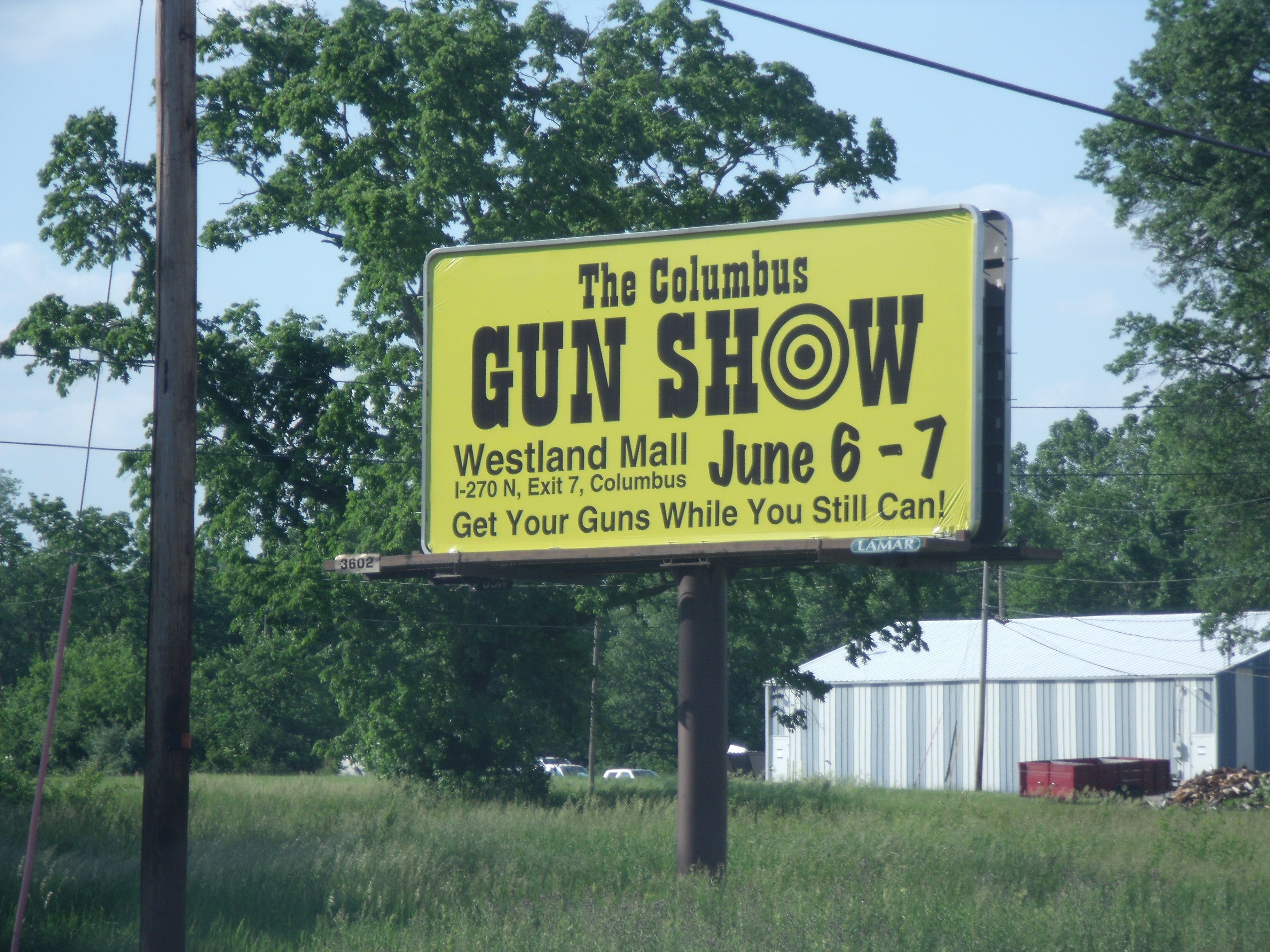 Billboard advertising a gun show in Columbus, Ohio